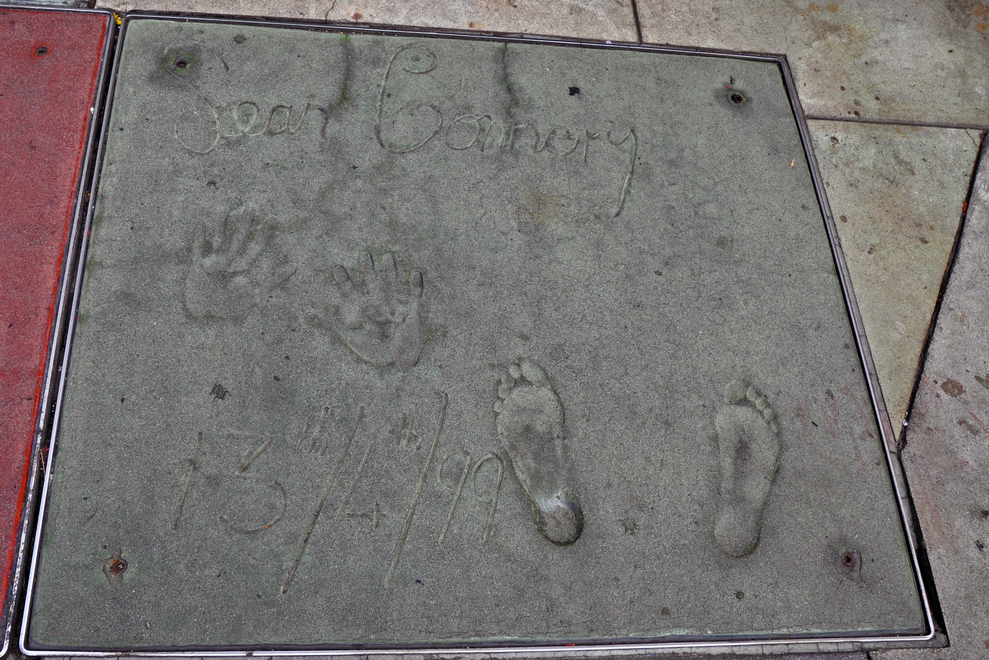 Impronte di Sean Connery al TCL Chinese Theatre a Los Angeles, agosto 2011